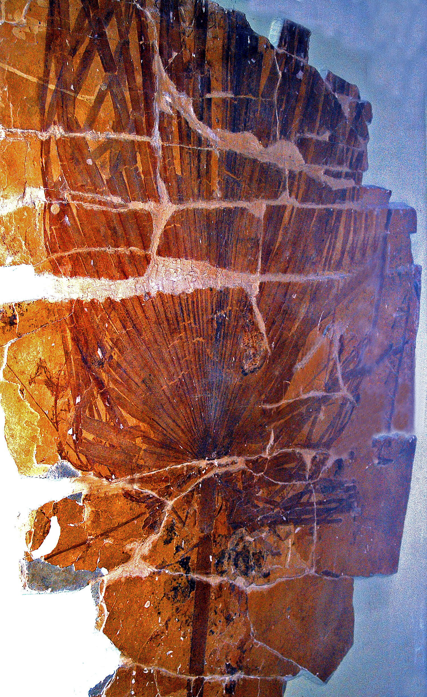 Fossil of Sabal major from Alba, Italy on display at the Museo archeologico e di scienze naturali, Alba